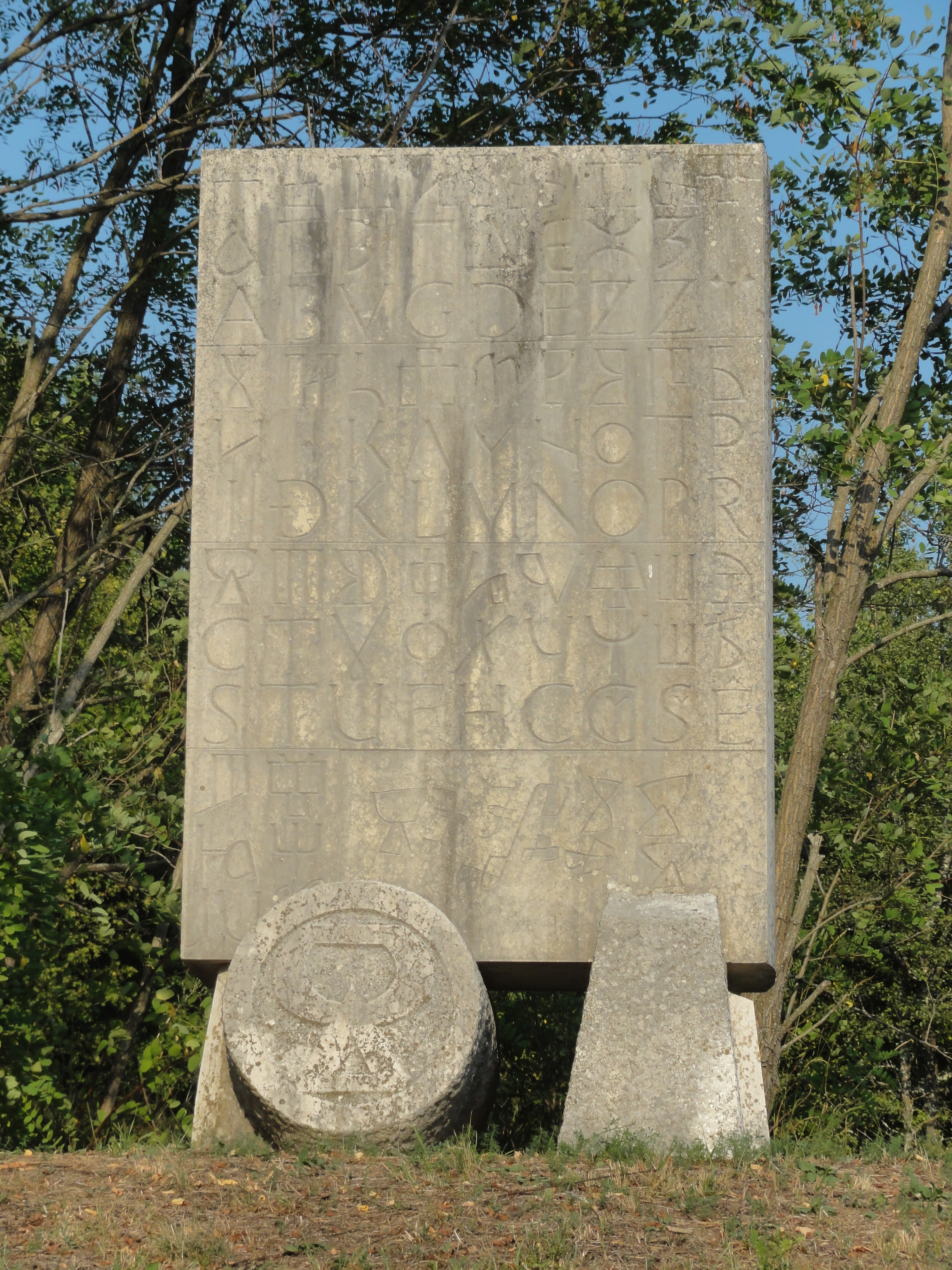 One of the stations at the Glagolitic Avenue near Hum, Croatia "Vidikovac Grgura Ninskoga" On a stone block in the form of a book the alphabet is carved in Latin, Cyrillic and Glagolitic script. It reminds of the croatic Bishop Gregor von Nin, who fighted for the right of a national church while the Croatian national dynasty in 10. century. On a metal plate in front of the memorial you find the inscription VIDIKOVAC GRGURA NINSKOGA / PISMA GLAGOLJICA CIRILICA I LATINICA / OTKRIVALA SU I ŠIRILA OBZORE / KULTURE I CIVILIZACIJE